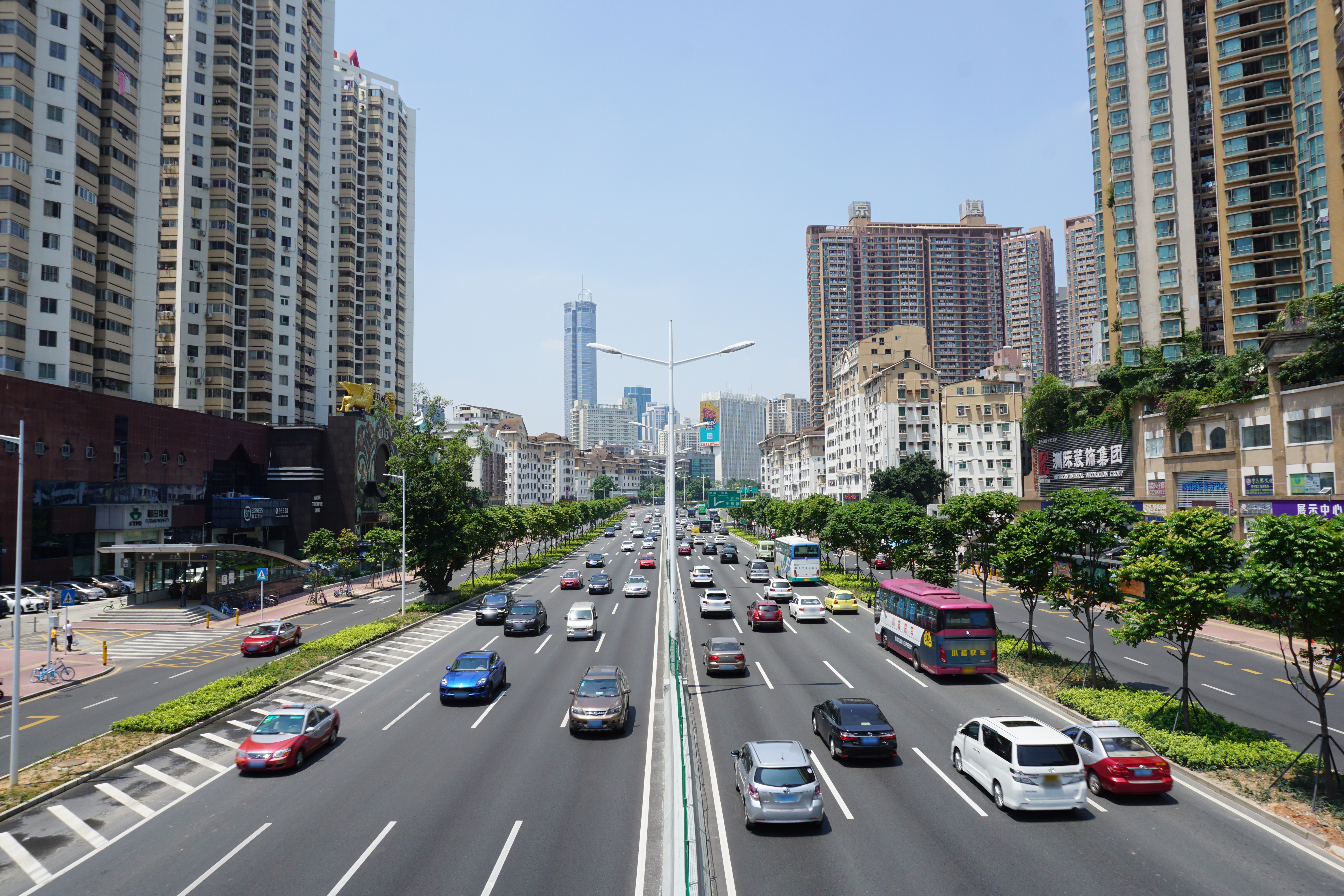 Binhe Boulevard in Futian District, Shenzhen.